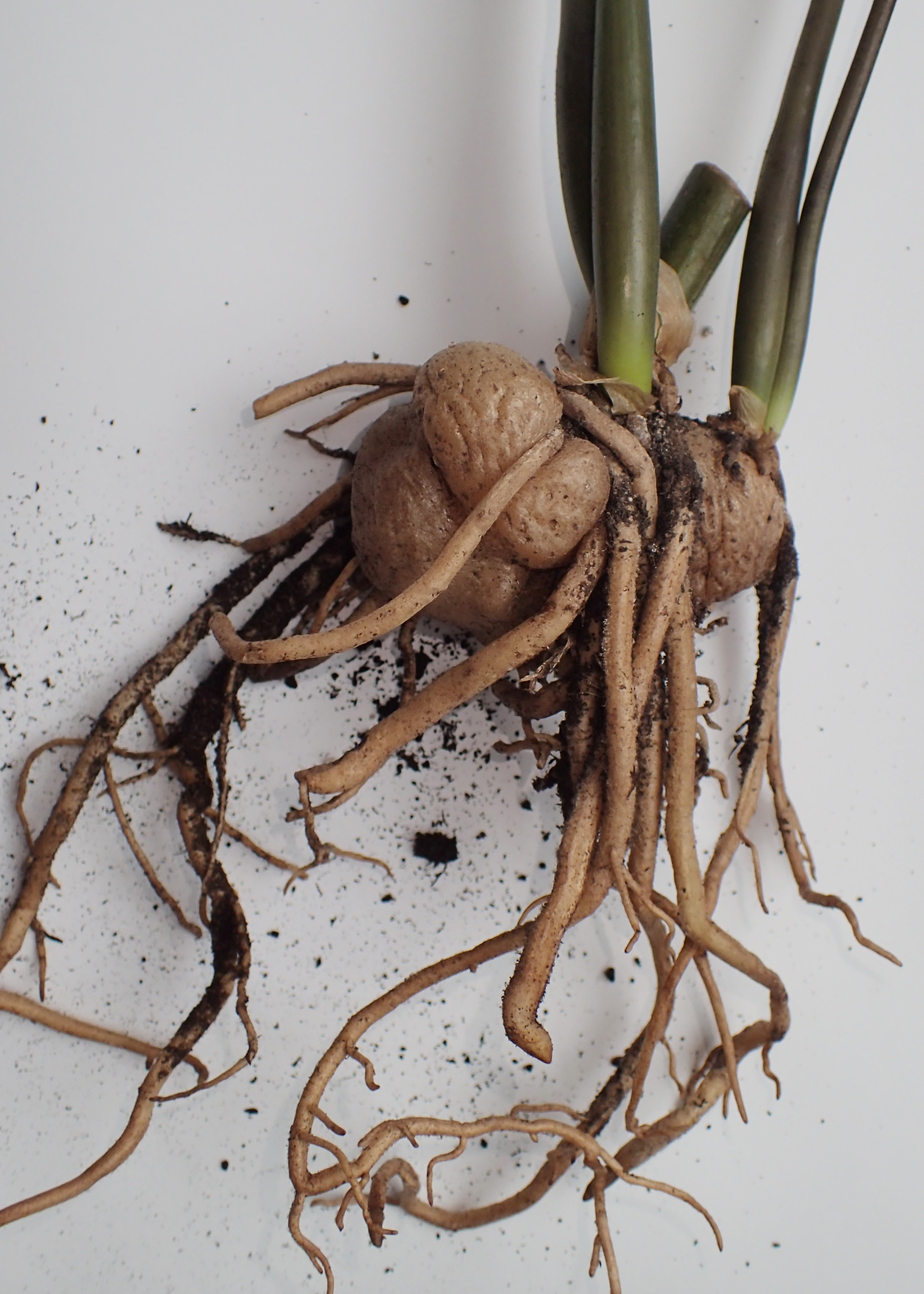 Zamioculcas zamiifolia (bulbs). Plant cultivated in pot (Szczecin, Poland).